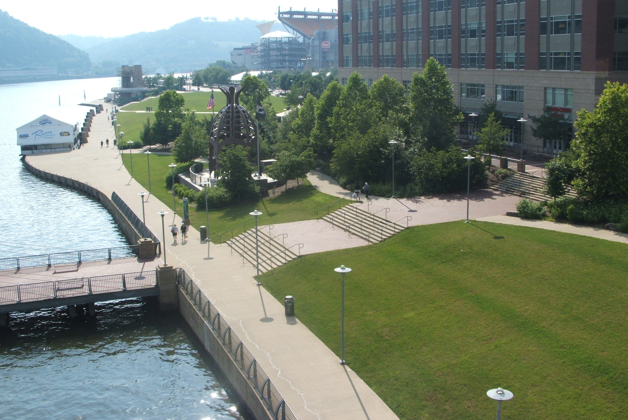 The North Shore Riverfront Park on the North Side of Pittsburgh, PA, USA.